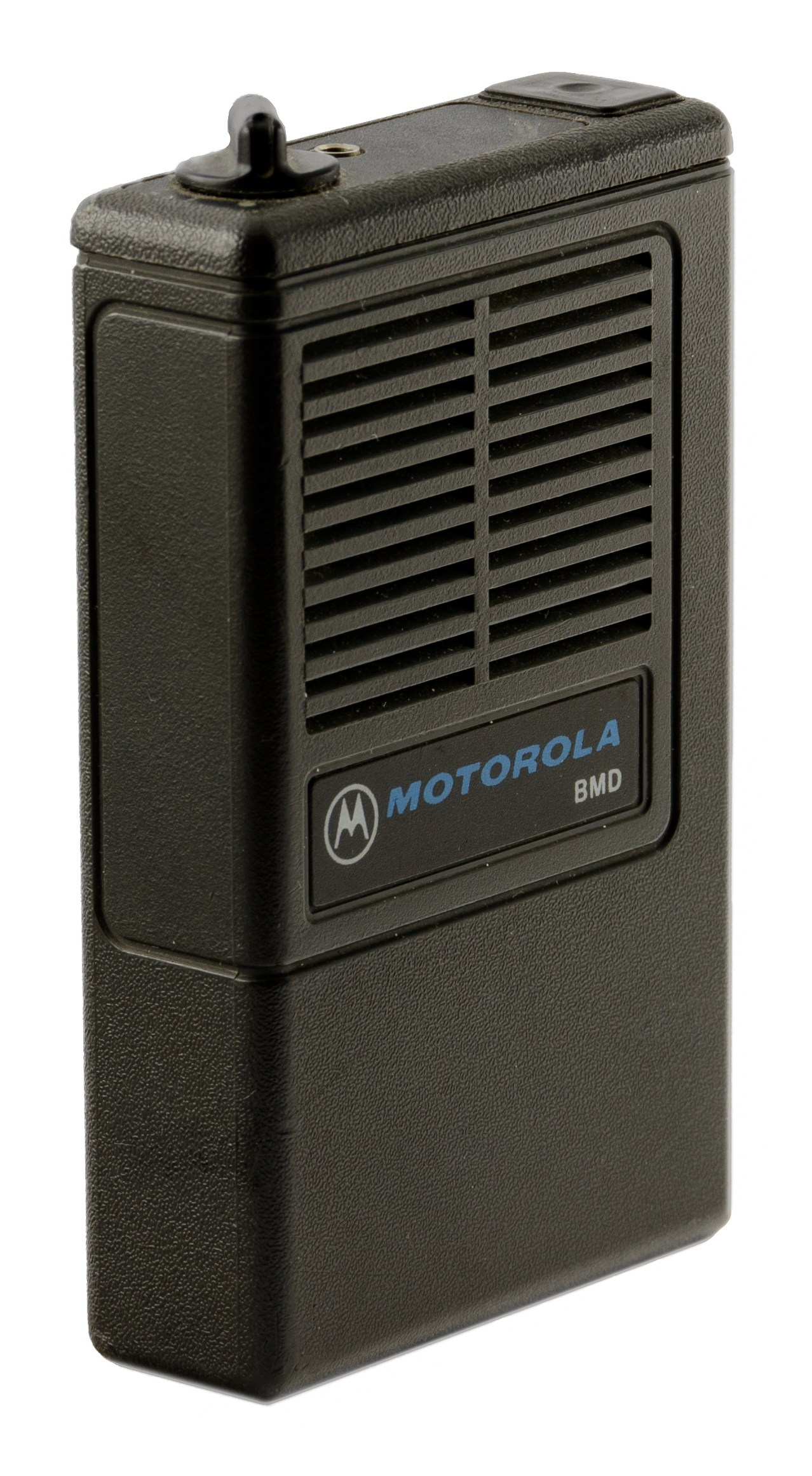 Motorola BMD-Pager